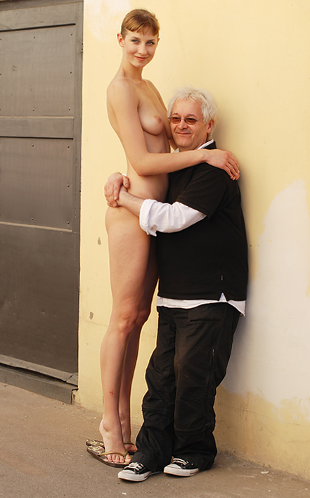 Photographer Robert Vano